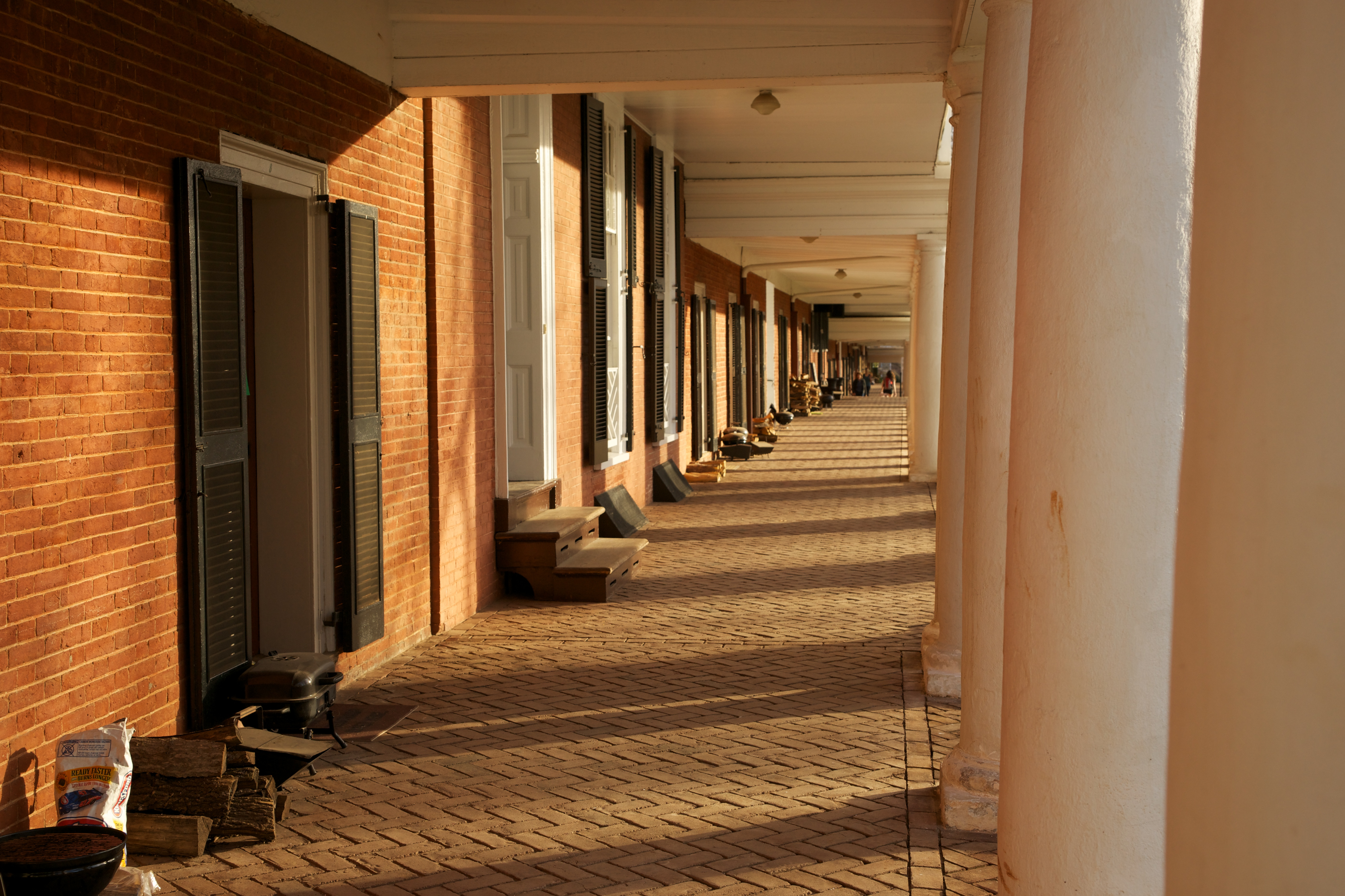 Looking south through the colonnade in front of the eastern Lawn rooms (the stairs belong to Pavilion IV) in the academical village of the University of Virginia, USA